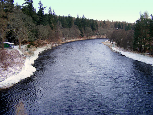 The River Spey at Carron Taken from the road bridge.